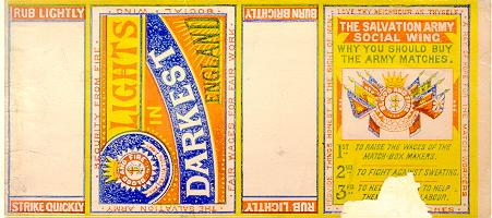 Match box with the brand name «Lights in Darkest England», produced by the Salvation Army at Bow in East London from 1891 to 1901.